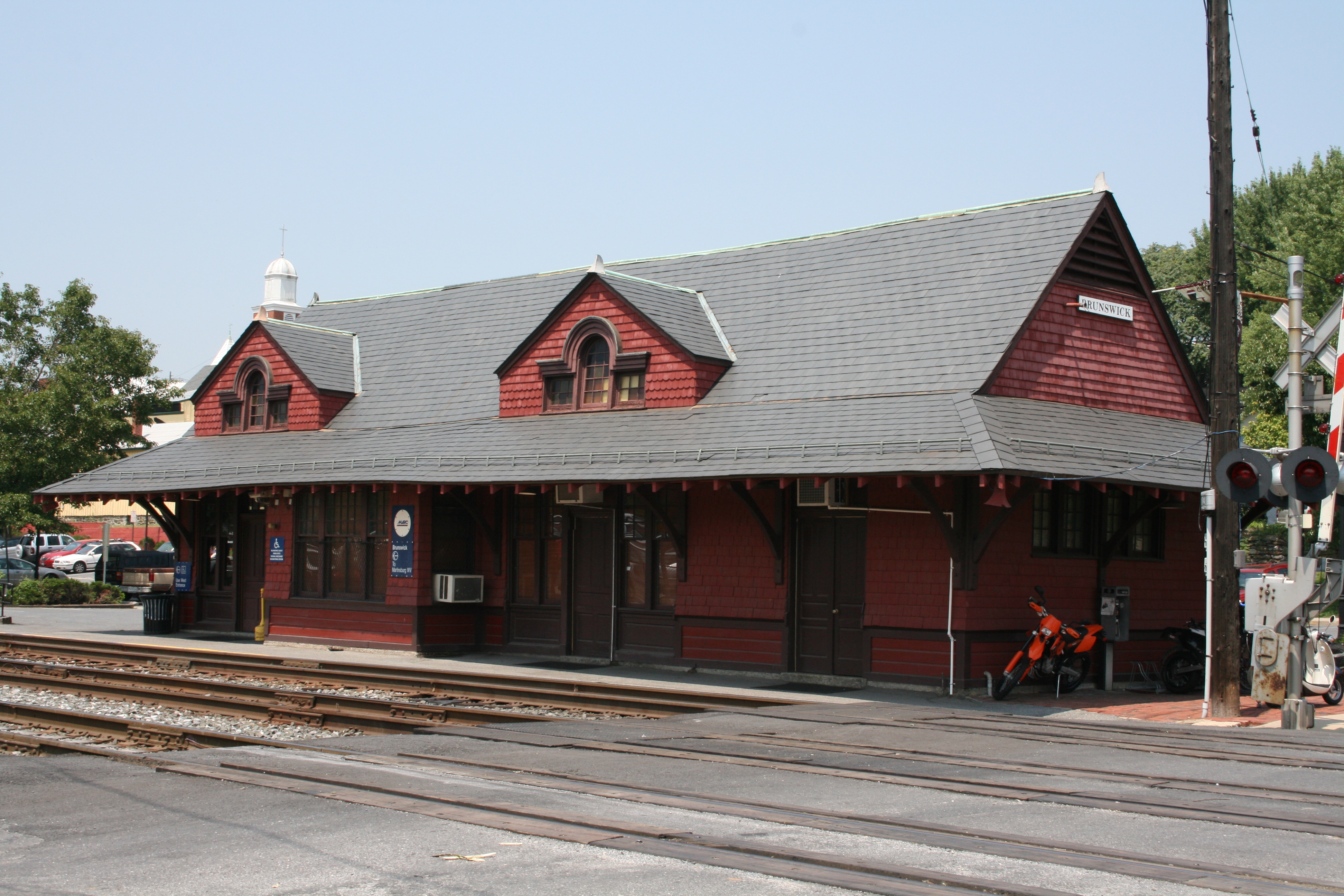 The historic train station in Brunswick, Maryland.